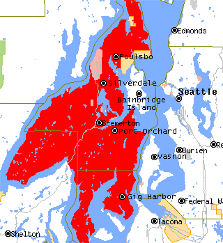 From Image:Kitsappeninsula.PNG Kitsap Peninsula in relation to Seattle, Tacoma Based on a public domain image courtesy of the United States Census, generated at color added by User:Lukobe.